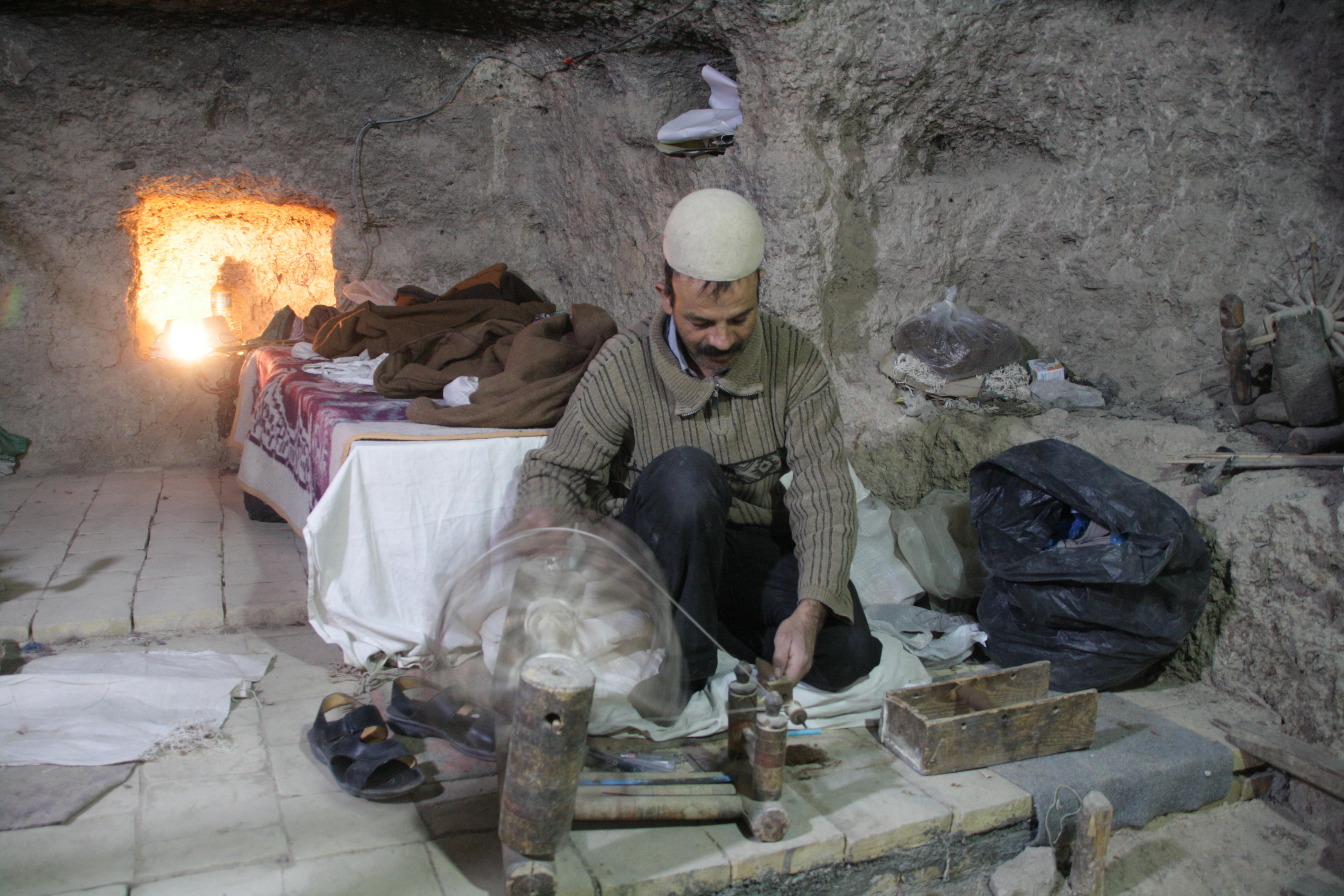 عبابافي محمديه